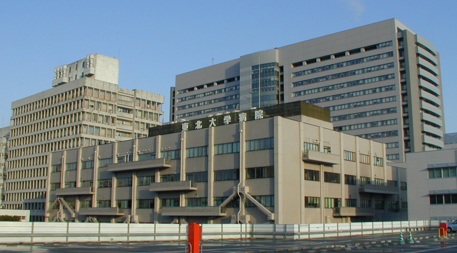 Tohoku University Hospital viewed from its multi-story parking garage.JPG